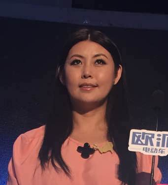 May Xue at the 2012 China Recruiting Show